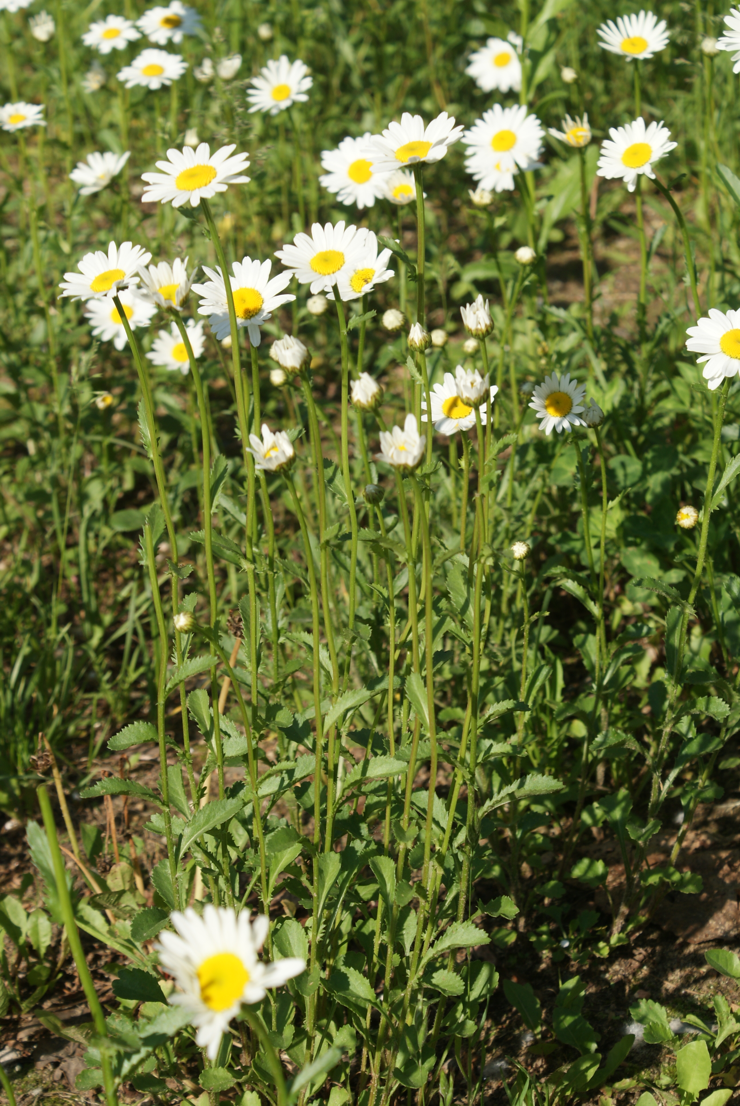 Leucanthemum vulgare in Minsk